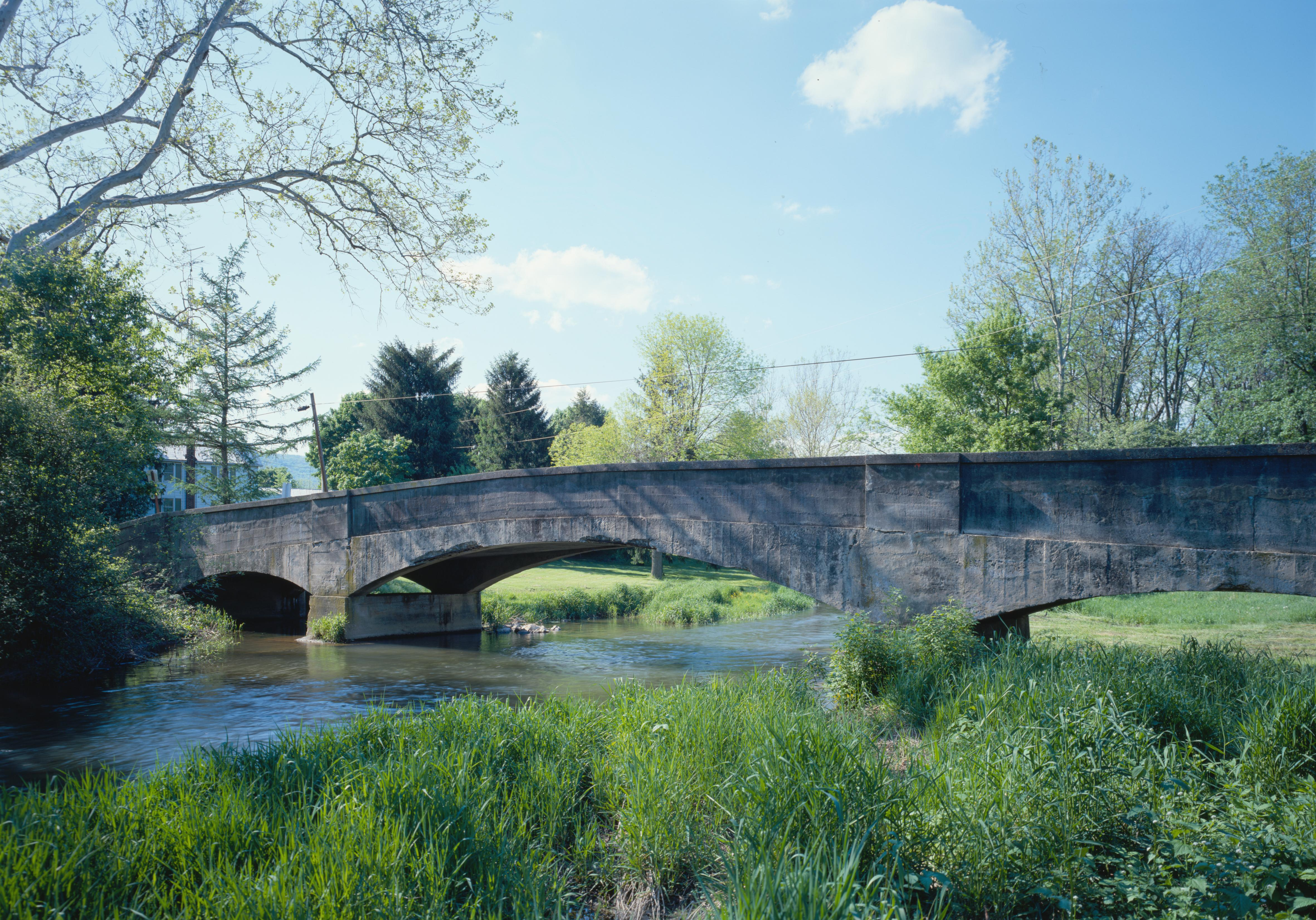 Southern (downstream) side of the Bridge in Metal Township, which carries Legislative Route 4006 over the West Branch Conococheague Creek near Willow Hill in Metal Township, Franklin County, Pennsylvania, United States. Built in 1907, this camelback concrete arch bridge is listed on the National Register of Historic Places.